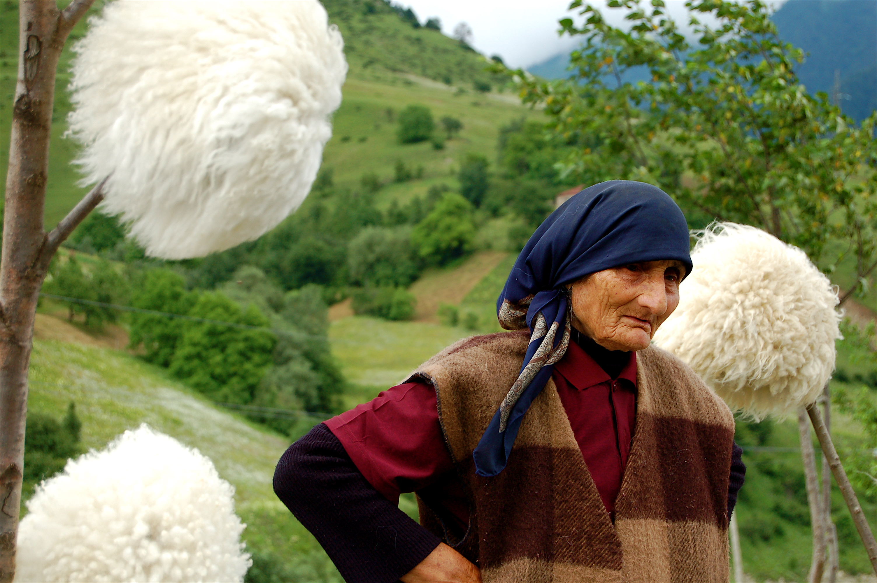 Rather comical hats, but necassary in winter.